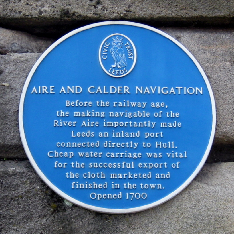 Leeds Civic Trust blue plaque "Aire and Calder Navigation", Call Lane, Leeds LS1. Cropped version of Aire and Calder Navigation blue plaque 1.